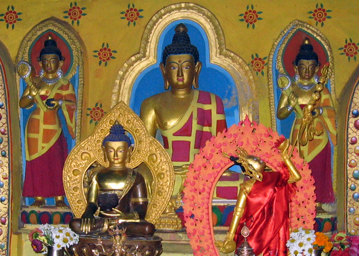 Statue of Aksobhya Buddha (center) at Kimdol Bahal, Swayambhu, Kathmandu dating from 1687 AD.